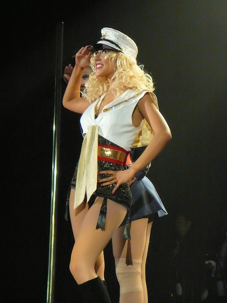 Christina Aguilera performing "Candyman" on the "Back to Basics Tour"